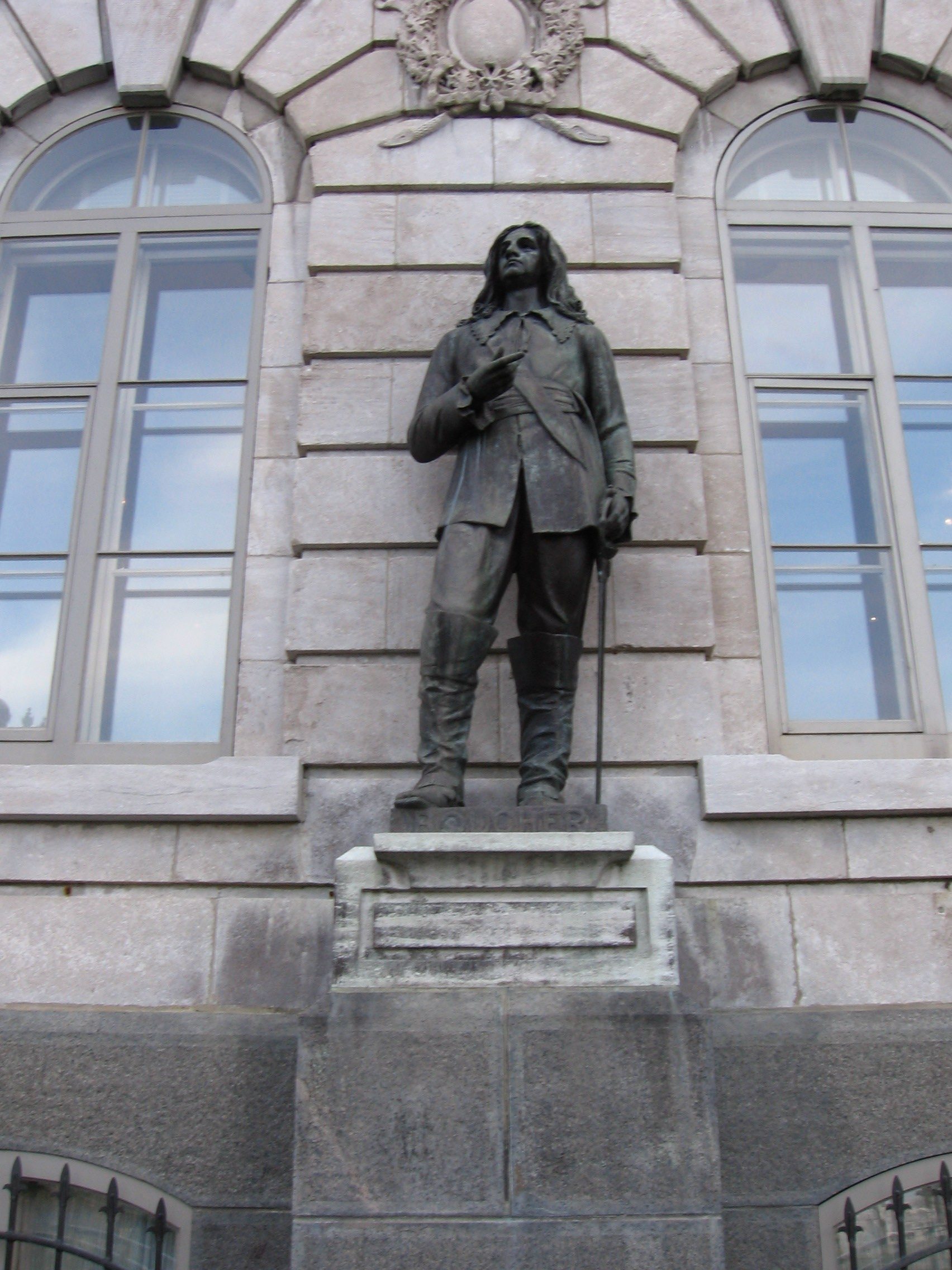 Statue of Pierre Boucher, from the sculptor Alfred Laliberté, at the Parliament Building in Québec, Canada.